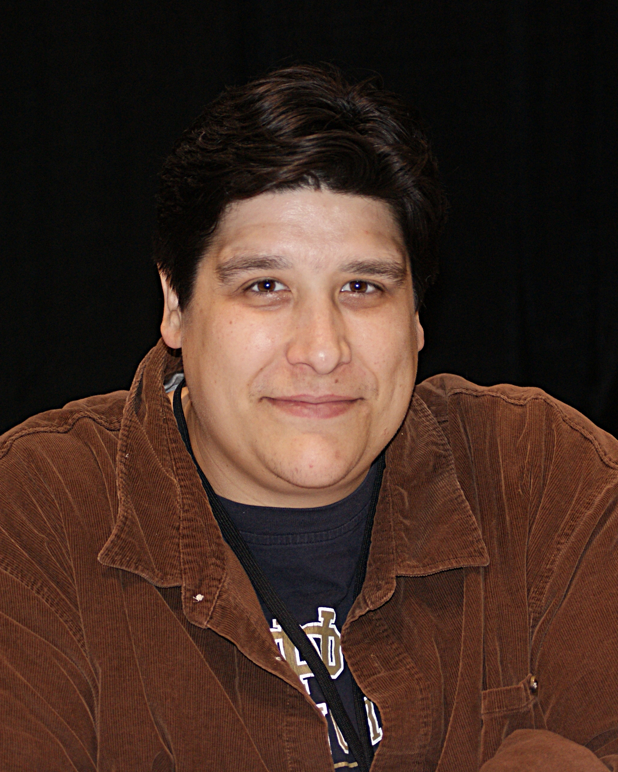 Scott Kurtz is an American cartoonist who began his career with his daily strip, Captain Amazing, which appeared for four semesters in the University of North Texas college paper. His first work to appear on the internet was Wedlock and Samwise, which he began in 1998. Kurtz is the creator of PvP (also known as Player vs Player), a webcomic that has been appearing daily since May 4, 1998. Photo was taken at the Calgary Comic & Entertainment Expo (BMO Centre, Calgary, Alberta, Canada).